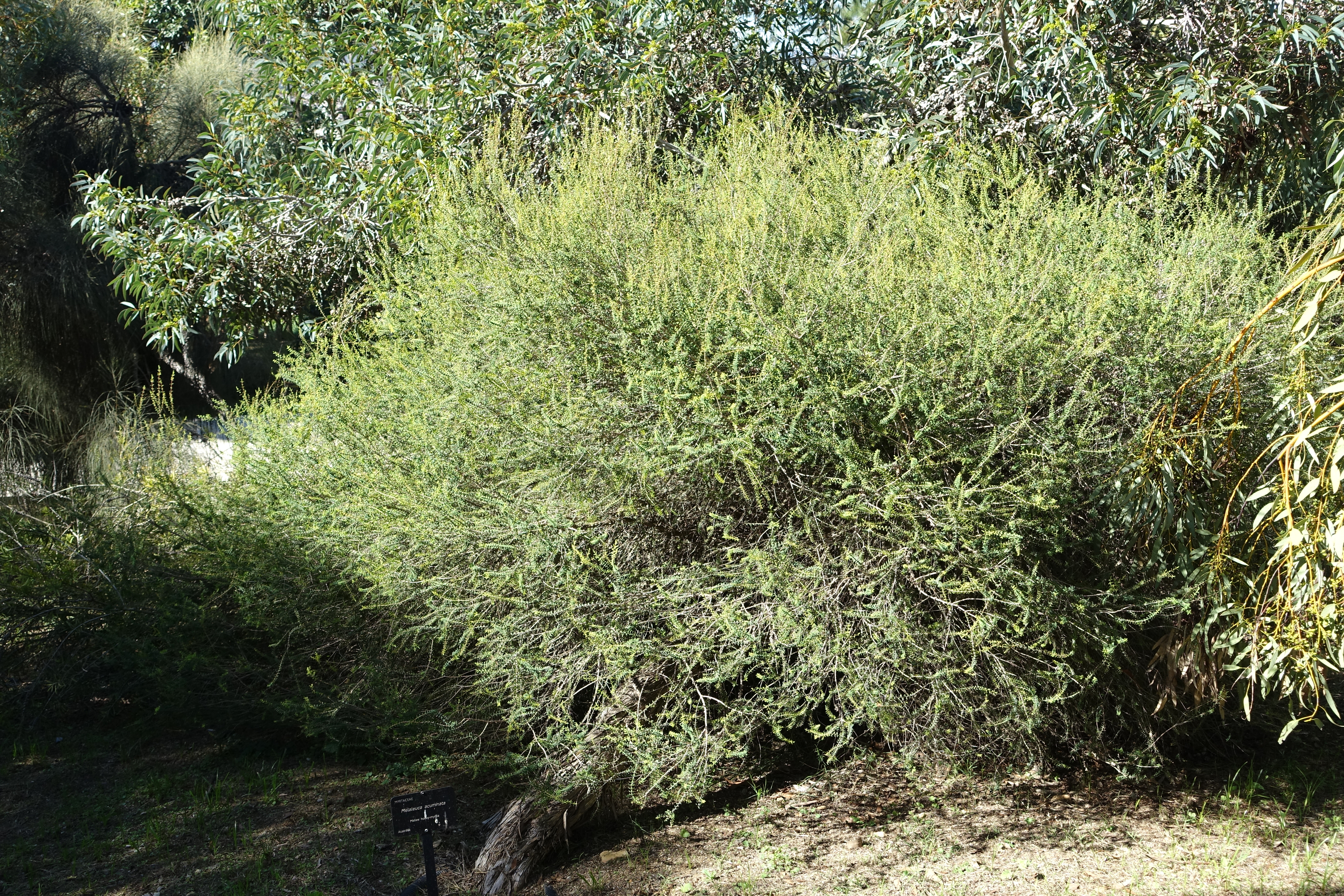 Botanical specimen in the Jardín Botánico de Barcelona - Barcelona, Spain.